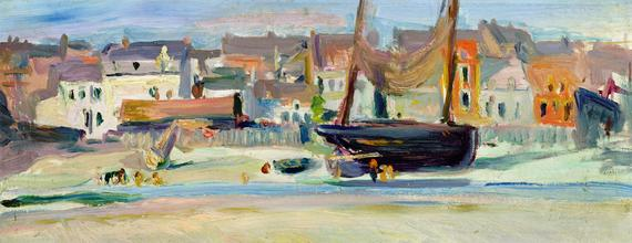 Lower largo, Fife